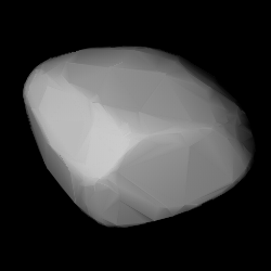 3D convex shape model of 1350 Rosselia, computed using light curve inversion techniques. J. Hanuš, J. Ďurech, M. Brož, B. D. Warner (June 2011). "A study of asteroid pole-latitude distribution based on an extended set of shape models derived by the lightcurve inversion method". Astronomy and Astrophysics 530: A134. ISSN 0004-6361. arXiv